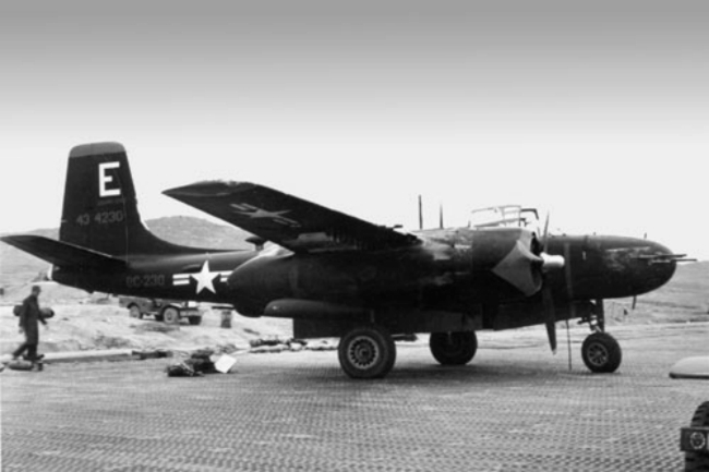 The U.S. Air Force Douglas B-26B-50-DL Invader (s/n 44-34230) of the 3rd Bombardment Group (Light) in Korea. This aircraft was loaned to France in February 1954 for service in Indochina. It was returned to the USAF in October 1955 and scrapped.